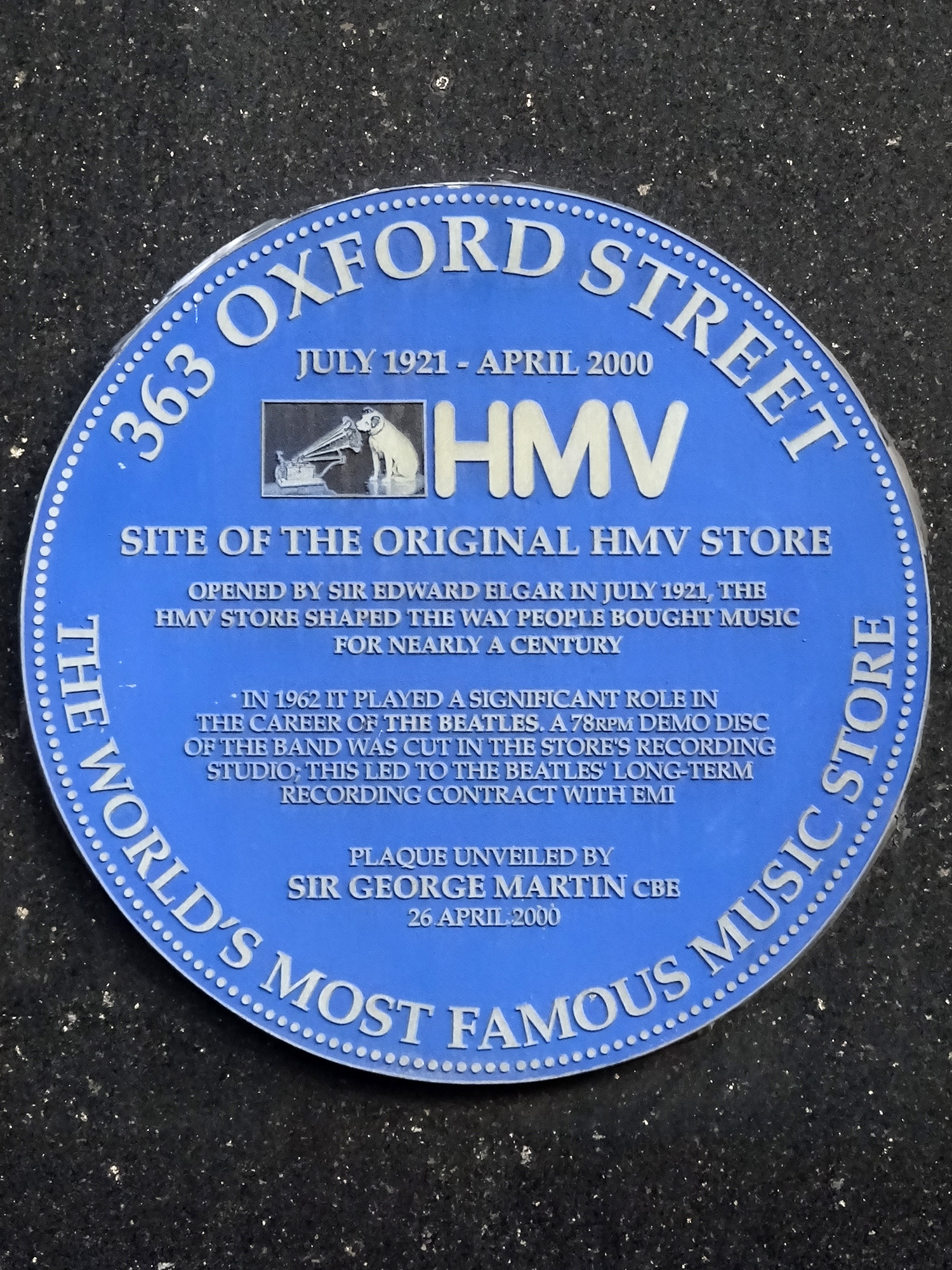 Blue plaque erected by HMV at 363 Oxford Street, Mayfair, London W1C 2JN; unveiled by Sir George Martin CBE on 26th April 2000.